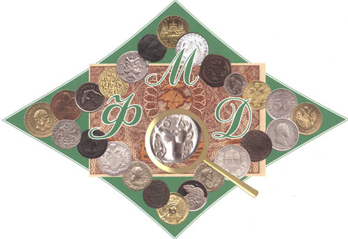 Feodosia Museum of Money emblem.